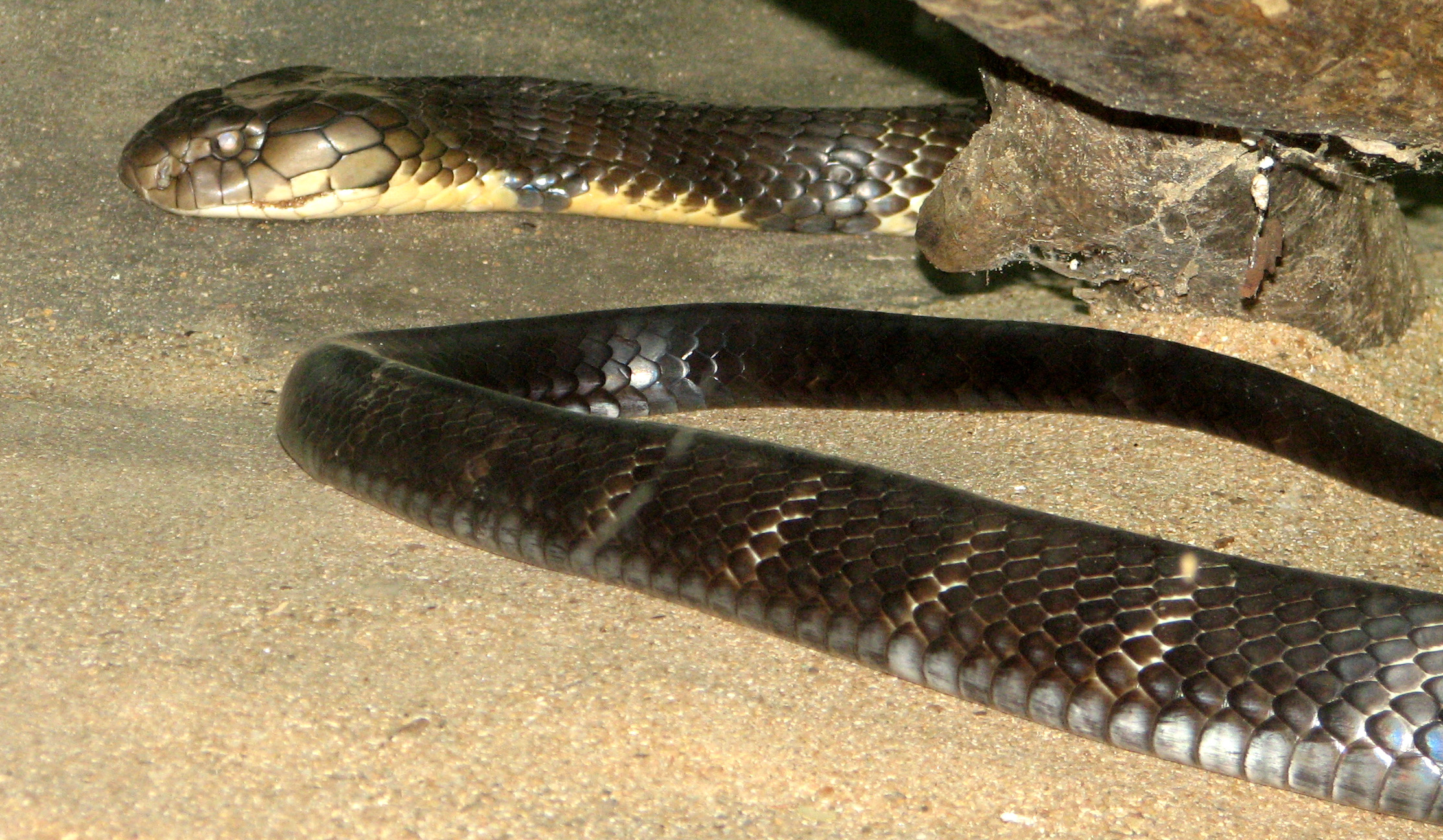 This is south Indian King Cobra in zoo